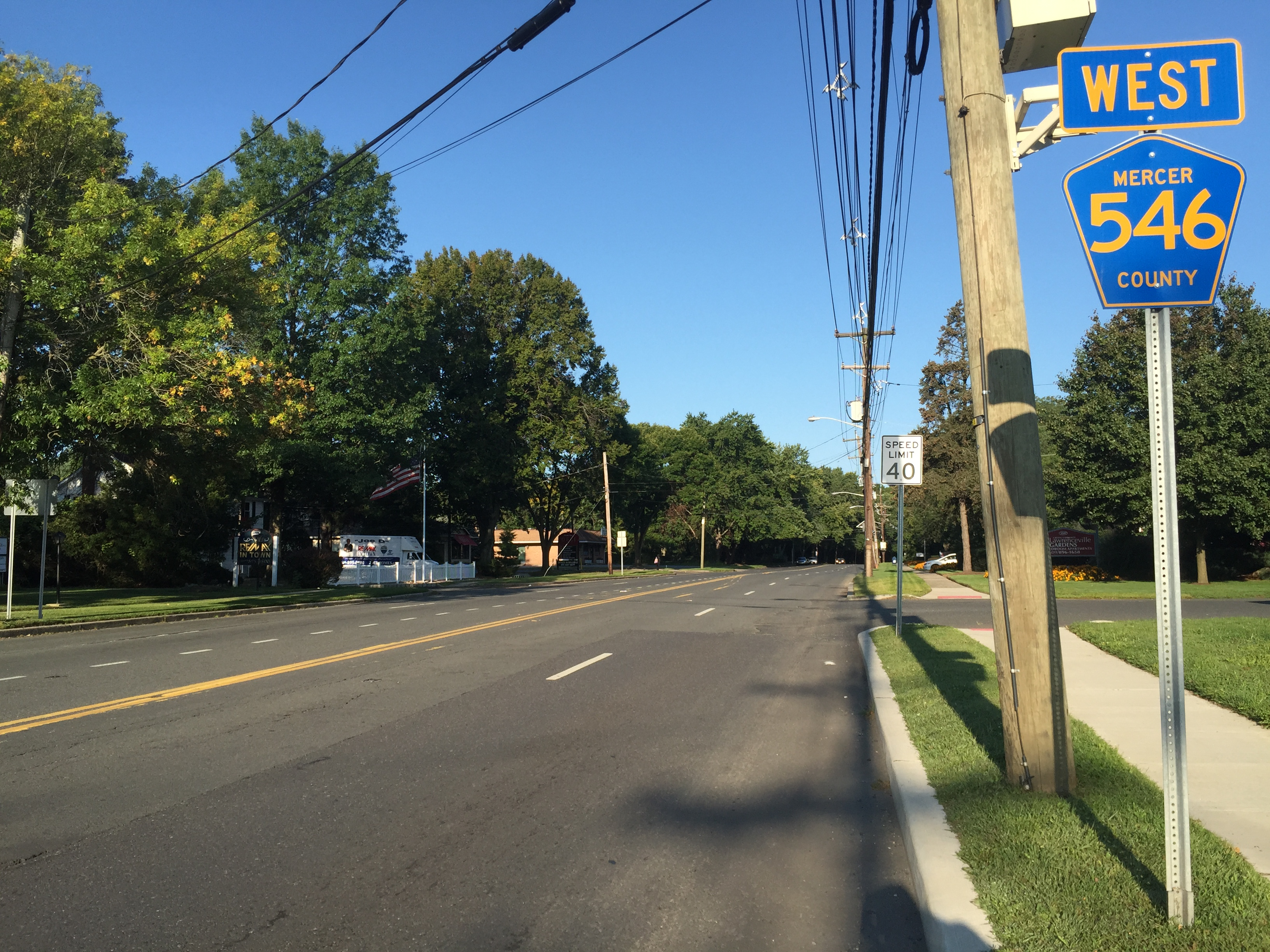 View west along Franklin Corner Road (Mercer County Route 546) at U.S. Route 1 (Brunswick Pike) in Lawrence Township, Mercer County, New Jersey